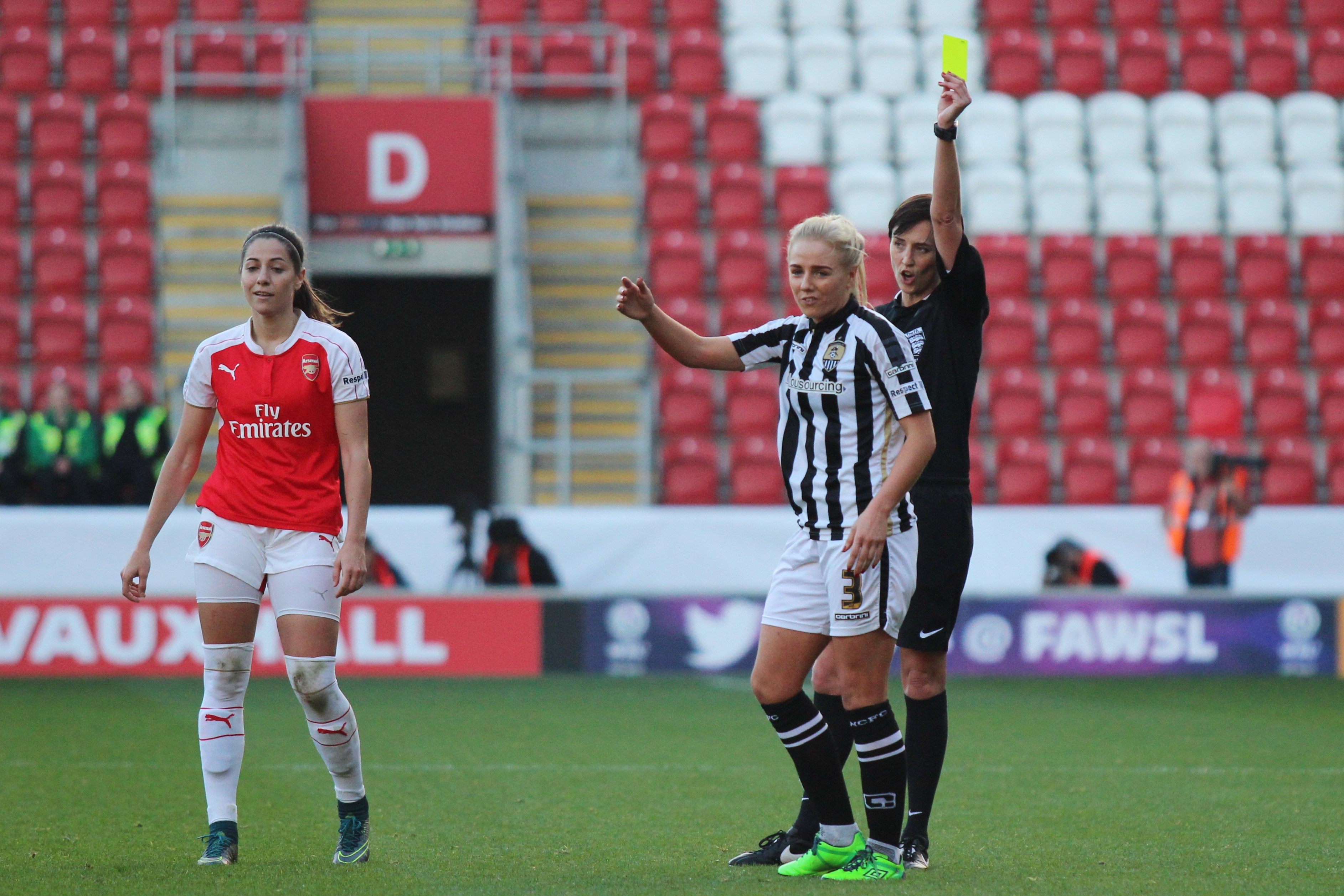 Alex Greenwood of Notts County Ladies is shown a yellow card during the game against Arsenal.